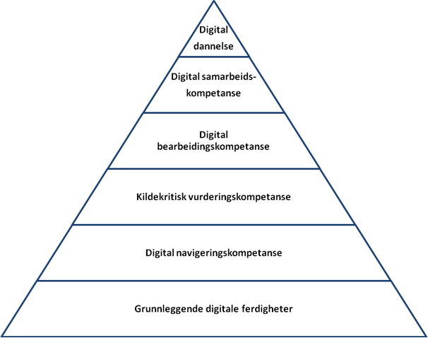 A model that describes different digital competencies